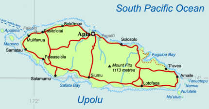 Map of Upolu Island, Samoa